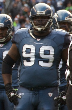 Seattle Seahawks defensive tackle Rocky Bernard during the game against the Philadelphia Eagles on November 2, 2008 at Qwest Field.